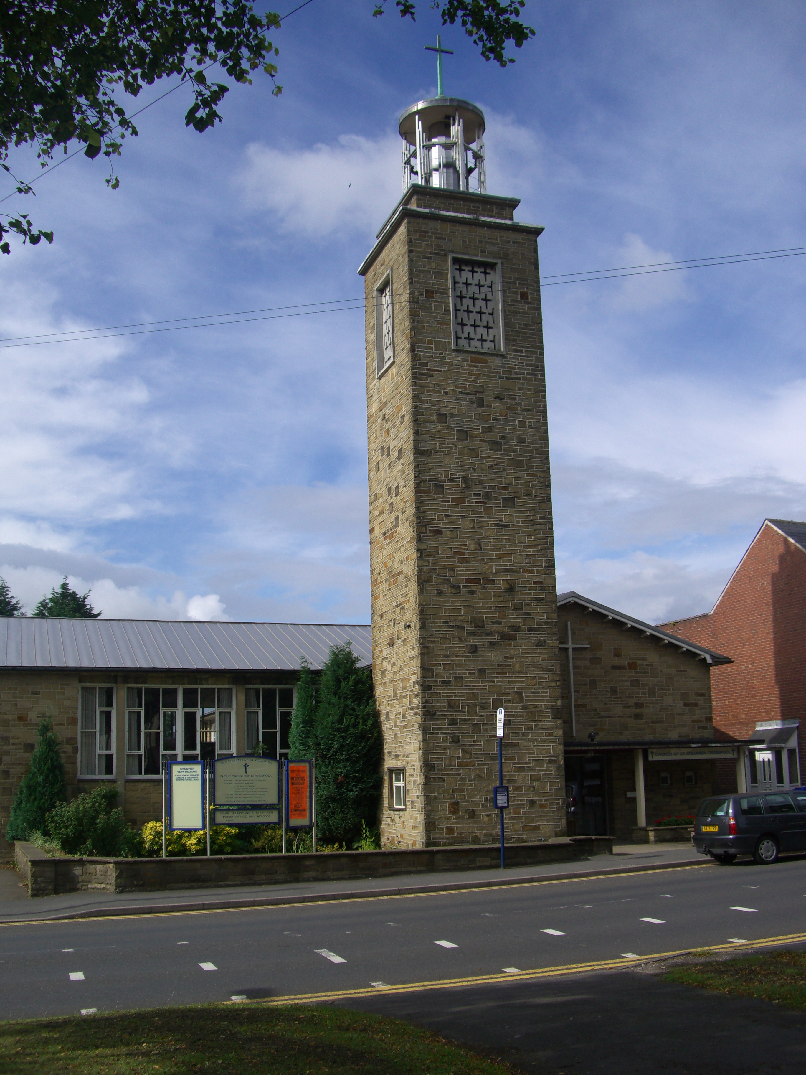 St Columba's parish church, Manchester Road, Crosspool, Sheffield, South Yorkshire